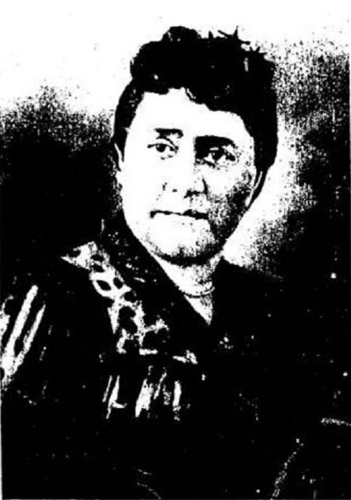 Ululani Lewai Baker (1858–1902), a Hawaiian high chiefess, who served as royal governor of Hawaii from 1886 to 1888. She was the wife of John Tamatoa Baker.